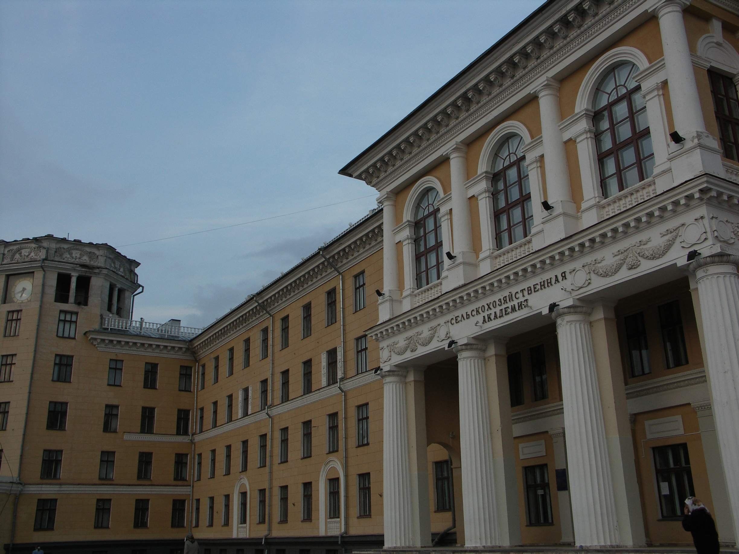 Chuvash Agricultural Academy, Cheboksary. Taken by Robert Broadie on 17 September 2005.